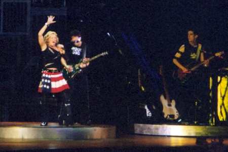 Madonna concert in Los Angeles back in '01